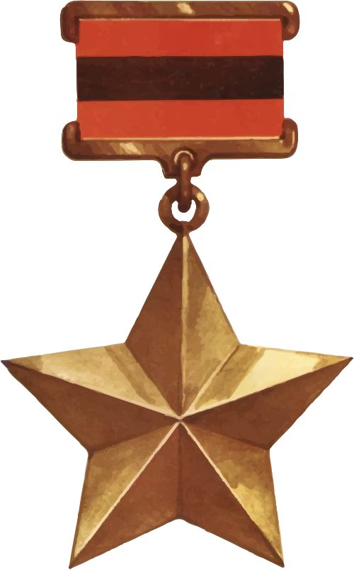 Title "Hero of the People" (Albania)